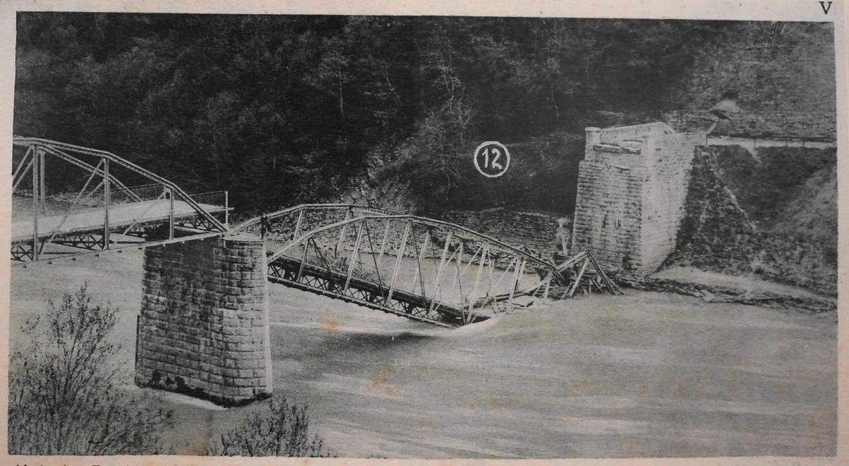 Lippitzbach Bridge after the blasting in winter 1918/1919 in the course of the conflicts in the Carinthian defensive struggle in Southern Carinthia, Austria, European Union